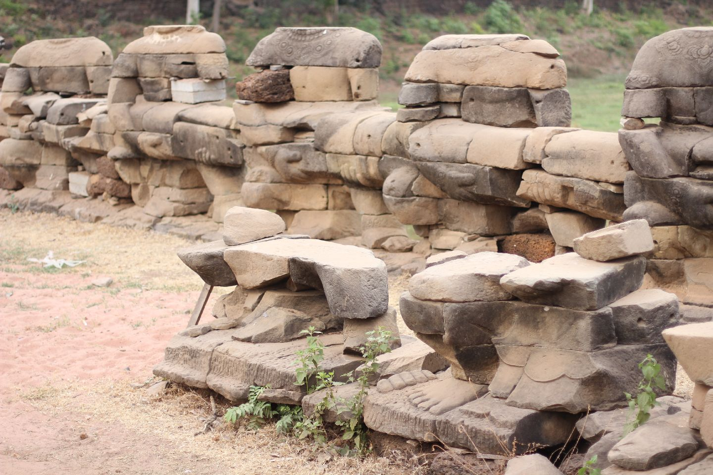 Remaining parts of the south naga balustrade, Temple of Banteay Chhmar, Cambodia